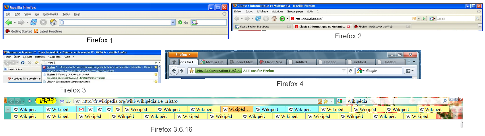 Screenshots of Firefox 1 à 4.